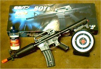 Picture of a Dboys "Boys" airsoft electric gun. 6 x AA battery powered, selective fire, 200 round capacity, 6mm, approx. 150 frame/s (according to Airsoft Atlanta, the retailer). Pictured with Crosman ammo.